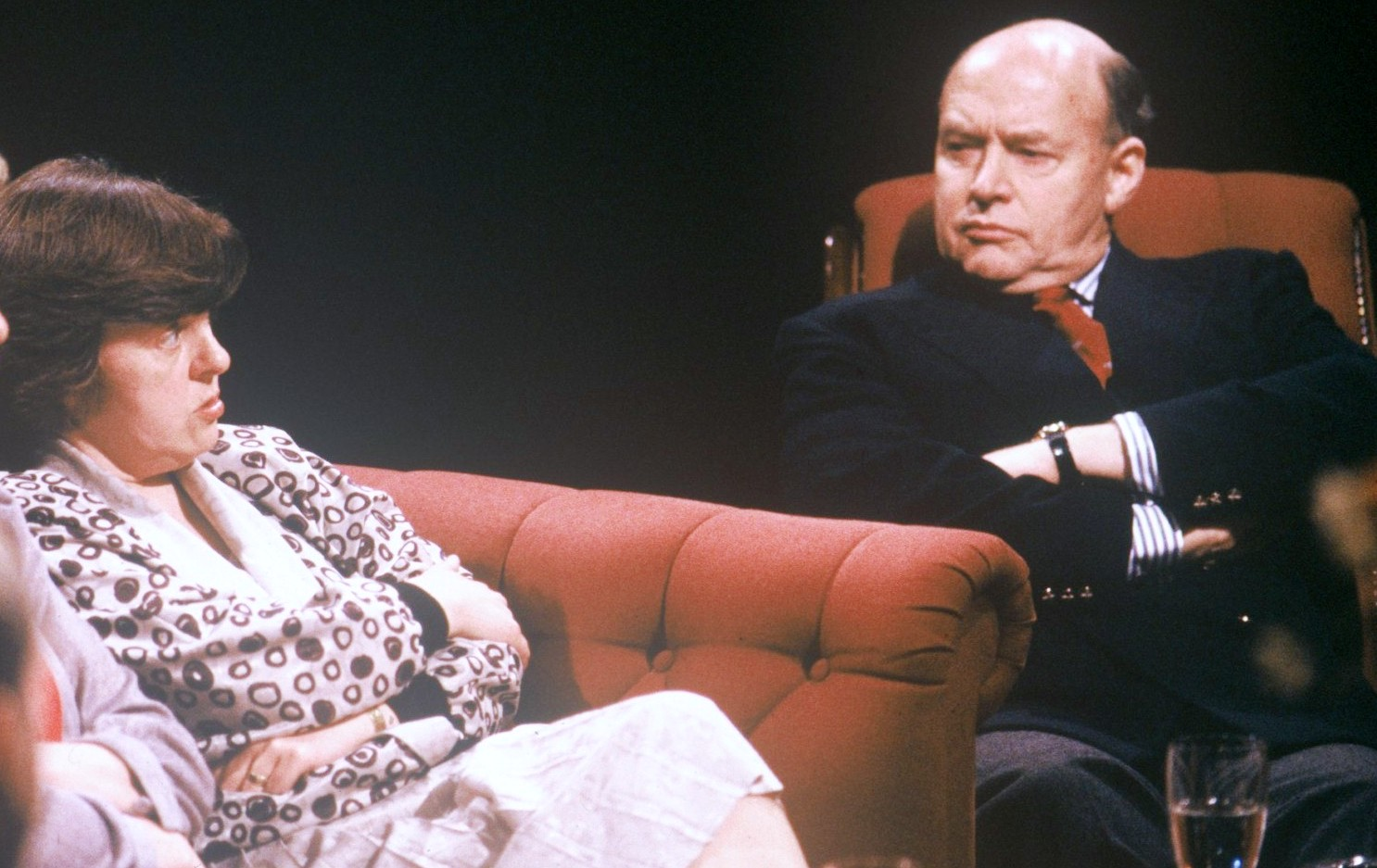 Bernadette Devlin McAliskey and Anthony Farrar-Hockley appearing on After Dark - episode 'Licensed To Kill?' - on 18 March 1988. Other guests included Pauline Perry, Onora O'Neill, Michael Wiseman, Bridie Maguire, Arnold Dousse. More here.